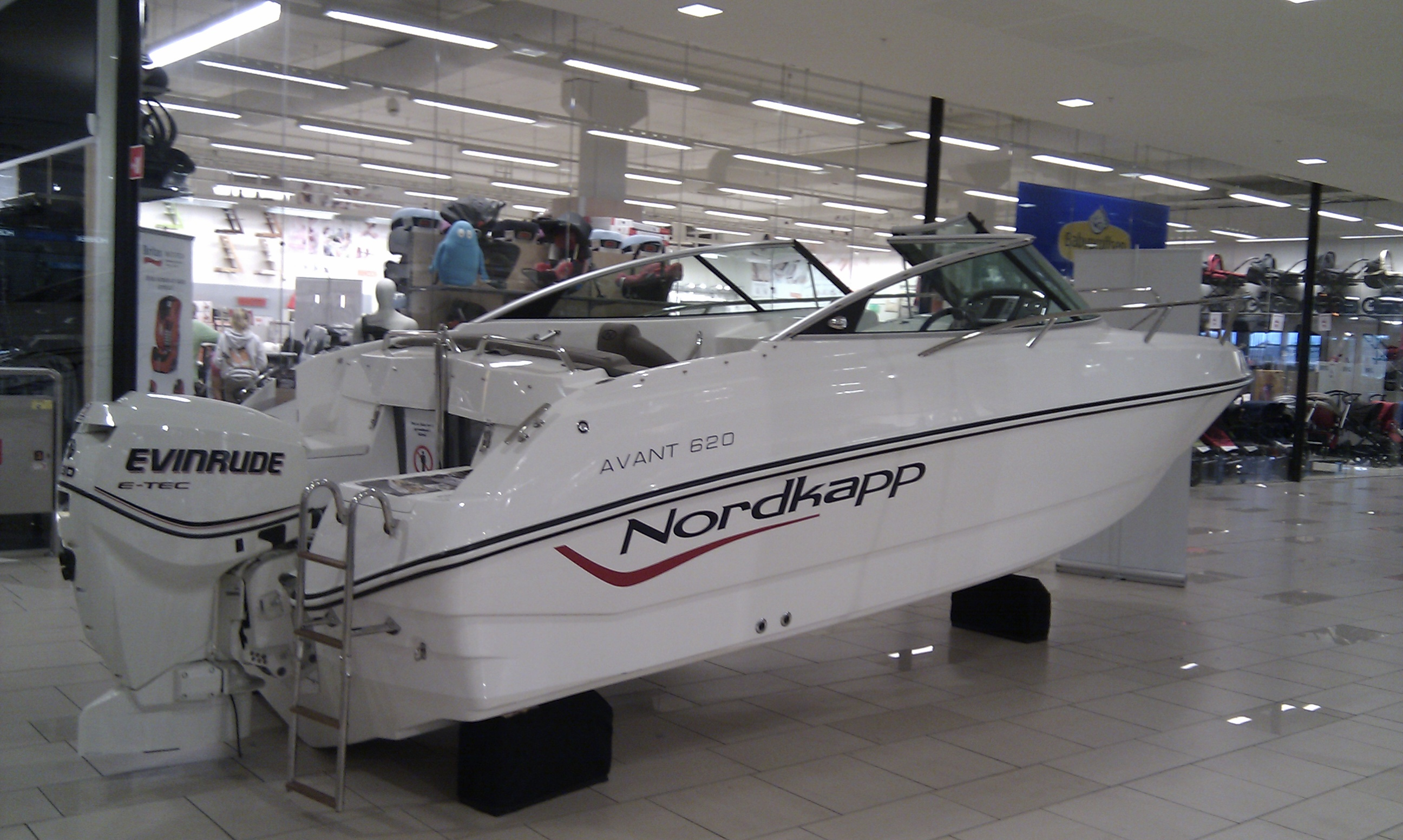 Nordkapp Avant 620.